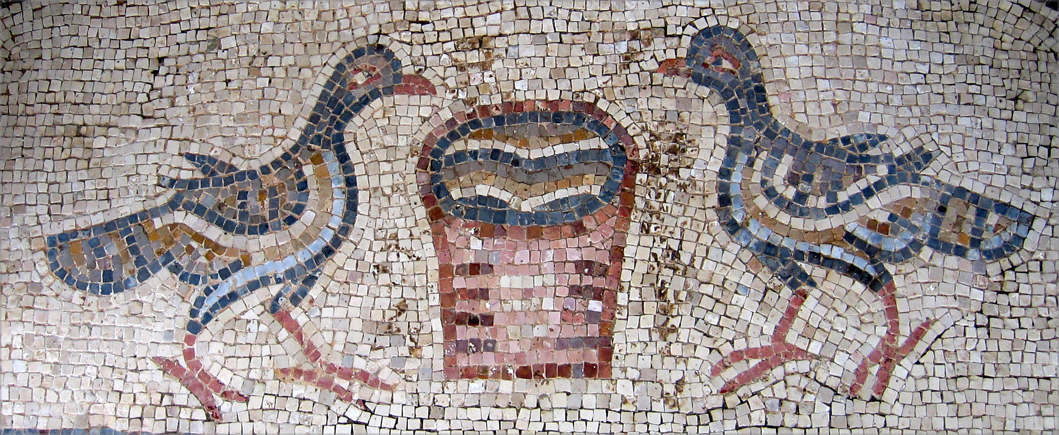 Kursi, Israel